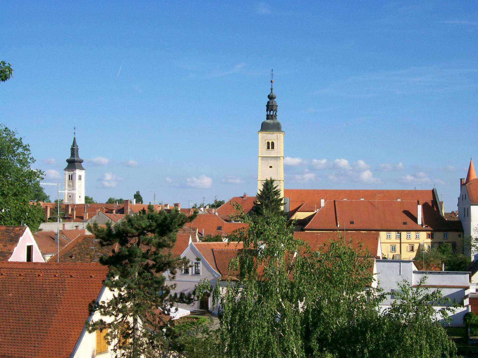 Roofs of Varaždin: view from Old Town